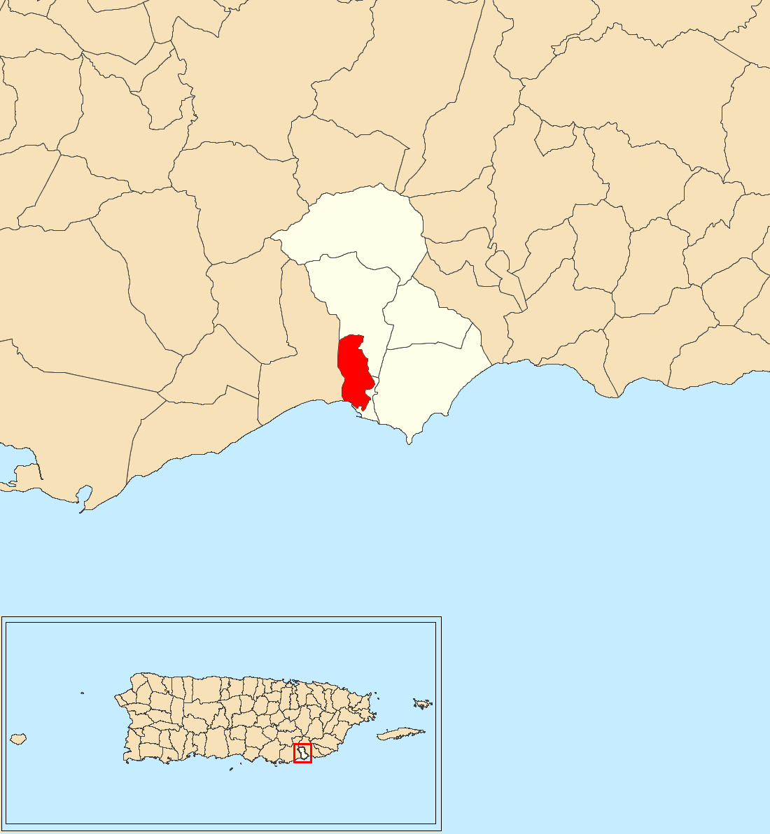 Guásimas, Arroyo, Puerto Rico locator map